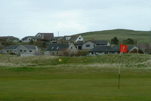 Reay Village. Taken from the Golf Course, these are the houses that line the main road through the village.